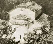 St. Nicholas Church, the main church od Manastir Monastery in Mariovo region